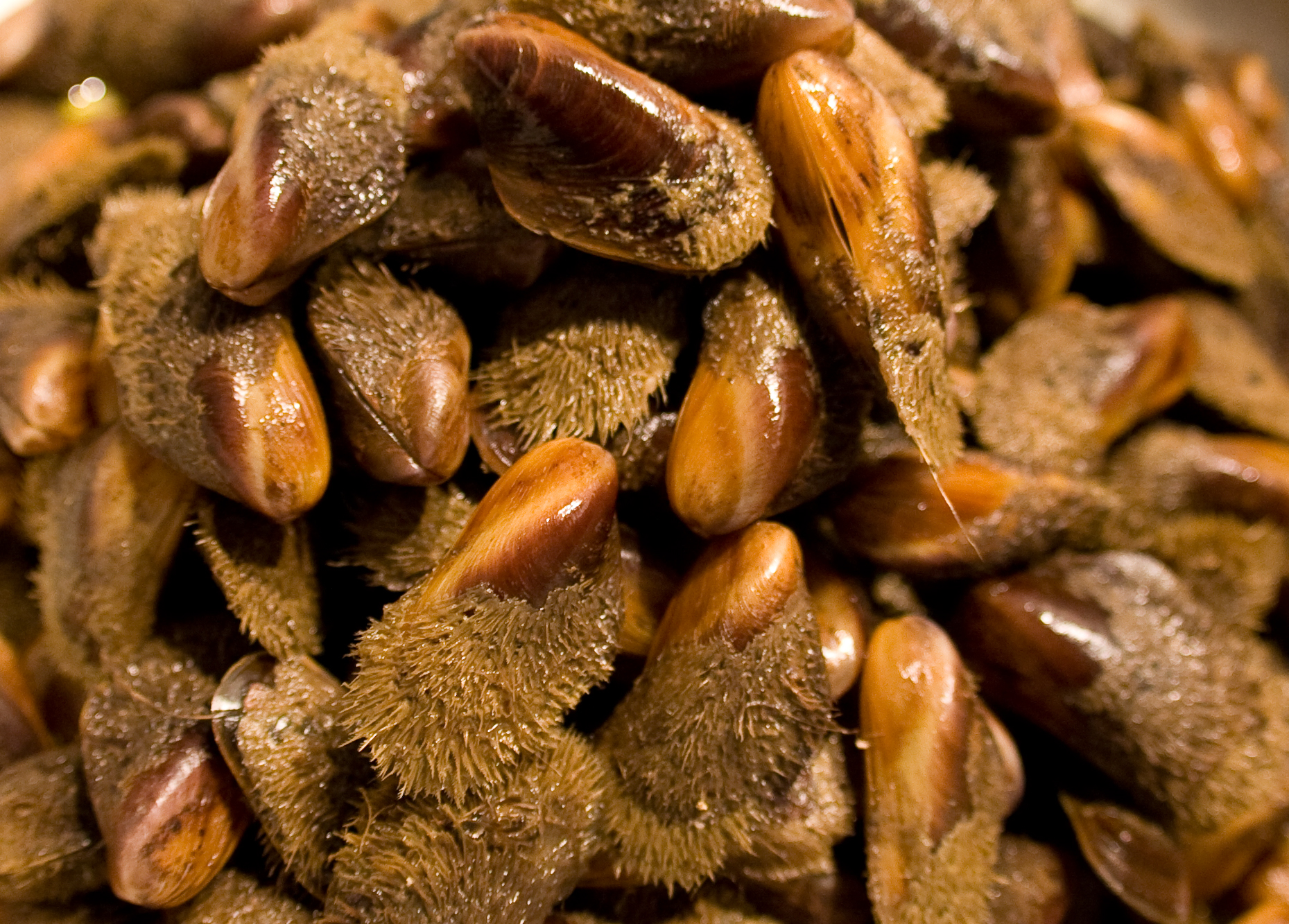 Modiolus Barbutus (Mytilidae). An edible sea mussel.